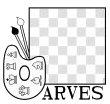 logo of the chess study organisation ARVES